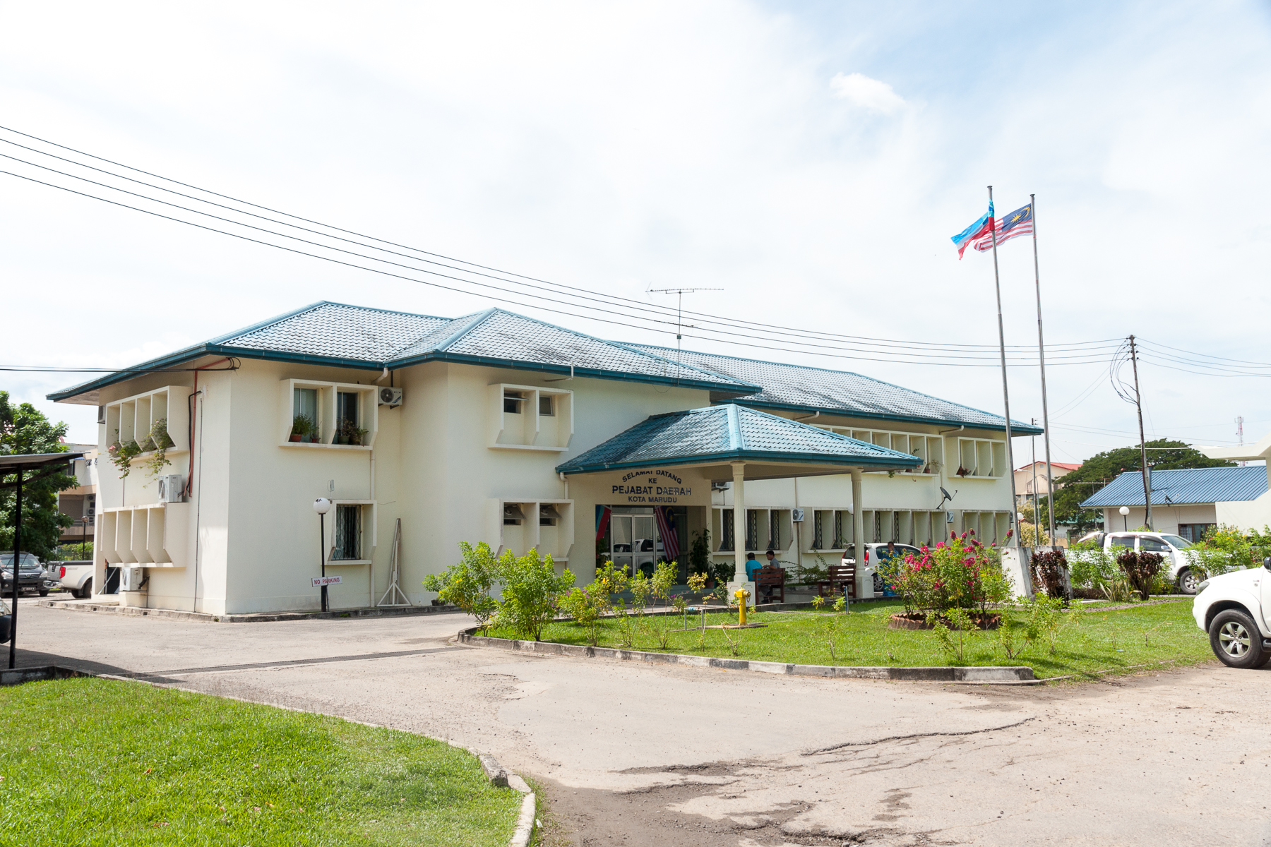 Kota Marudu, Sabah: District Office